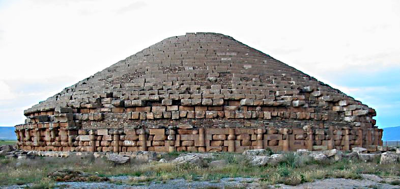 The Numidian Royale Mausoleum (Boumia, Algeria)